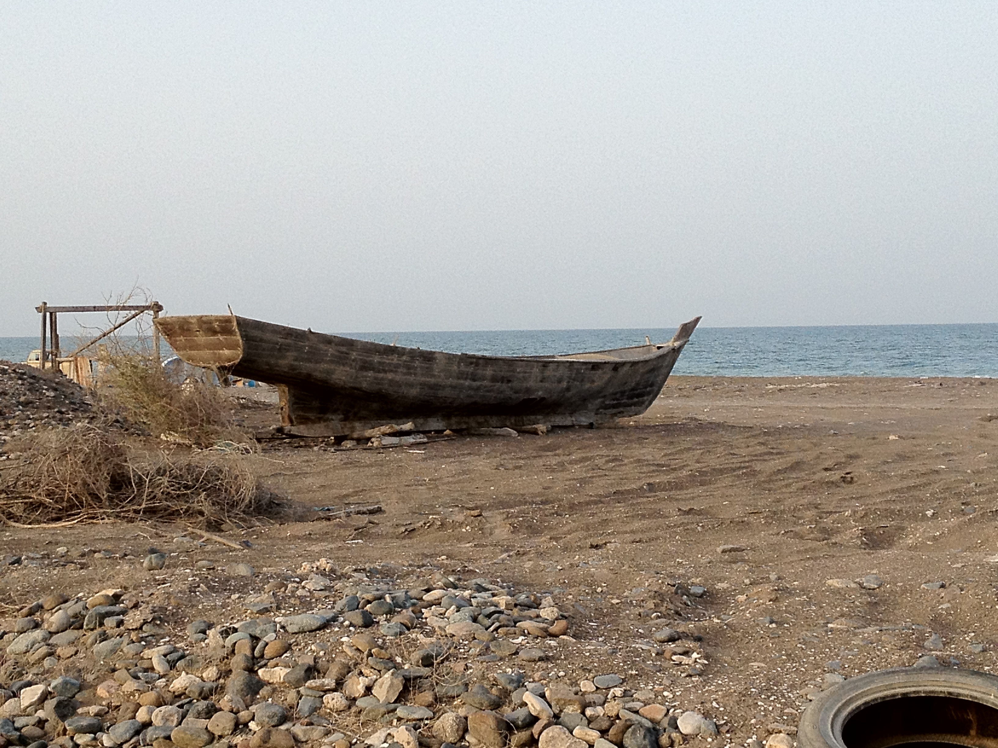 Shinas